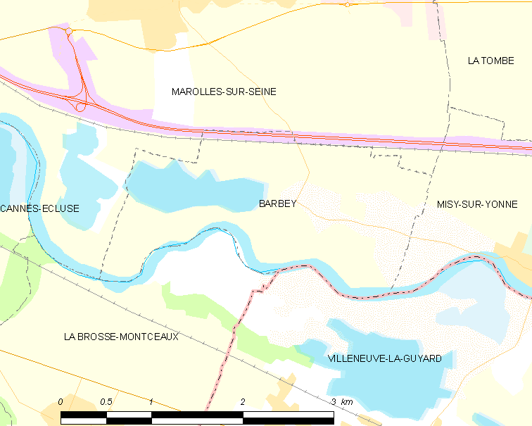 Map of French municipality Barbey